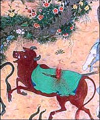 Painting of Birmaya in The Shahnama of Shah Tahmasp